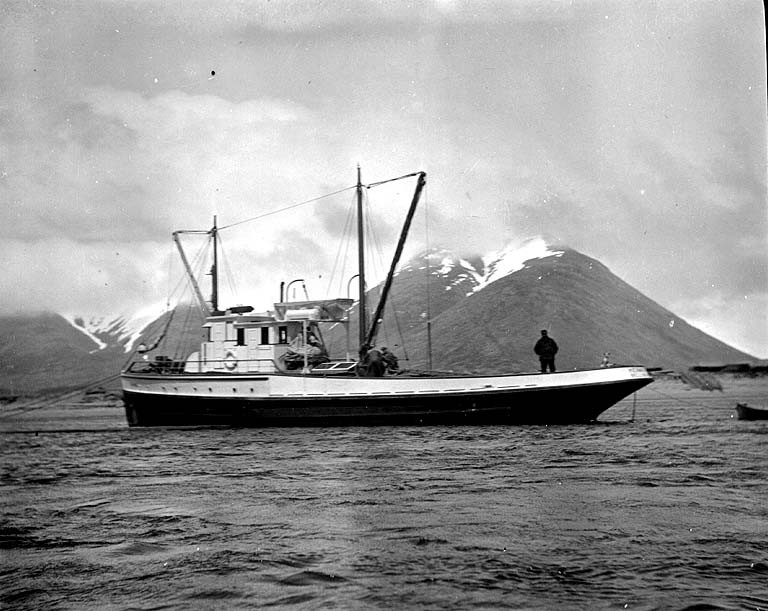 From John Cobb field notebook: Pacific American Fisheries cannery tender Kenmore, King Cove, Alaska. May 1912 Subjects (LCTGM): Ships--Alaska--King Cove Subjects (LCSH): Kenmore (Ship); Pacific American Fisheries; Salmon canning industry--Alaska--King Cove